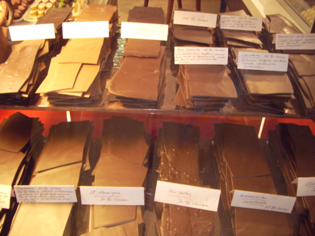 Chocolate Bars exposed in a shop window in Neuchâtel (Switzerland)